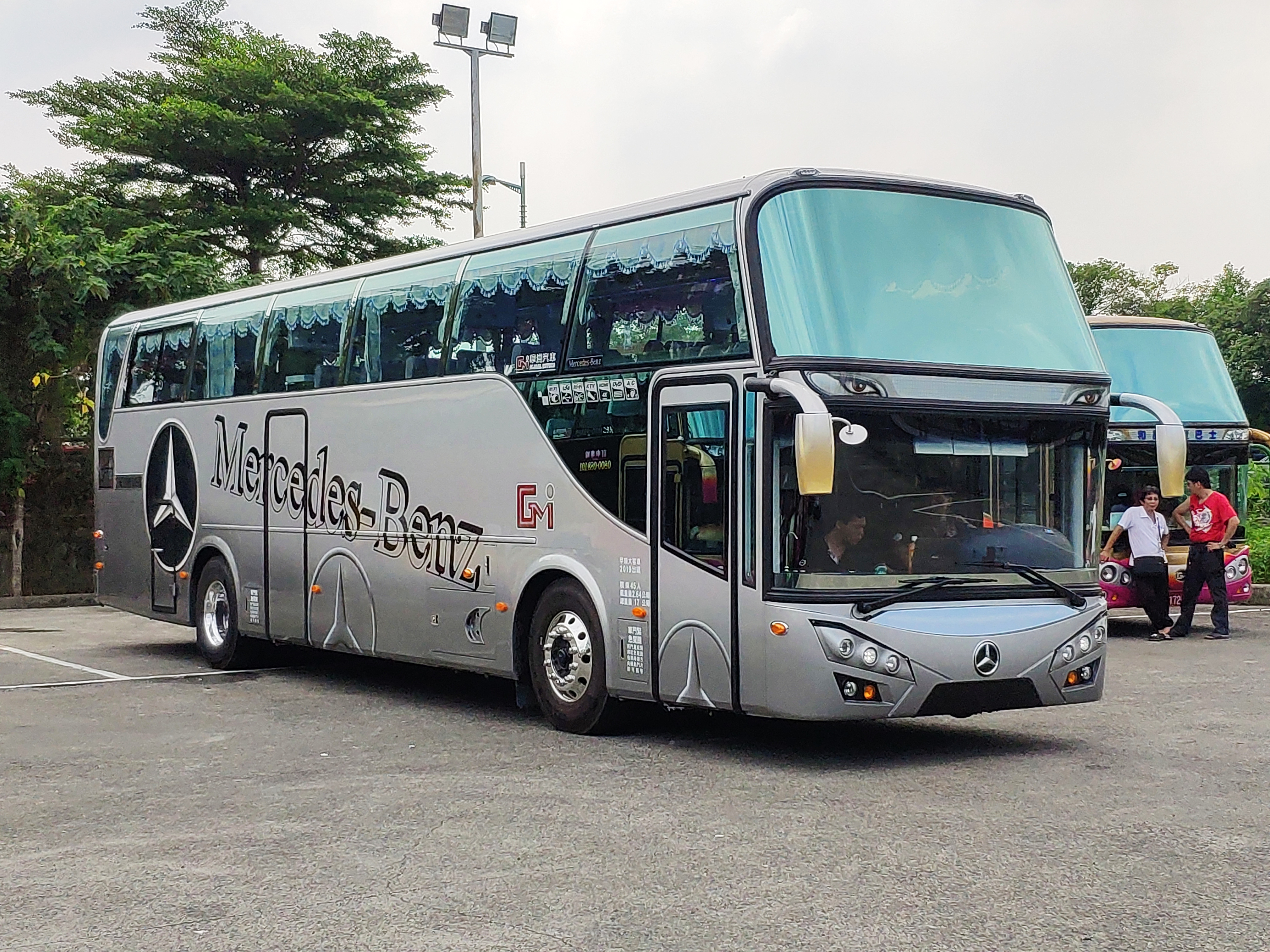 Global Motors Mercedes-Benz O500 bus